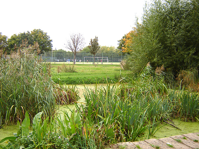 Haggerston Park, Haggerston, Hackney, London. 9 October 2005. Photographer: Fin Fahey